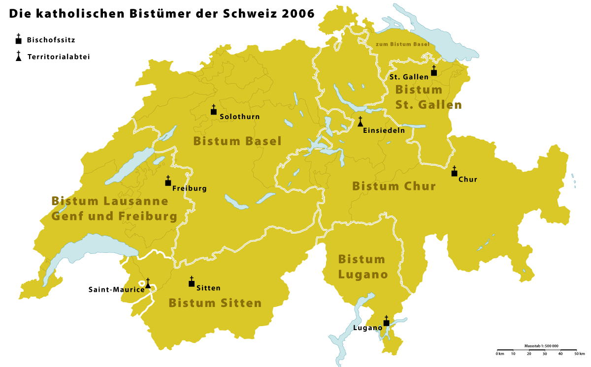 Roman-Catholic Dioceses of Switzerland